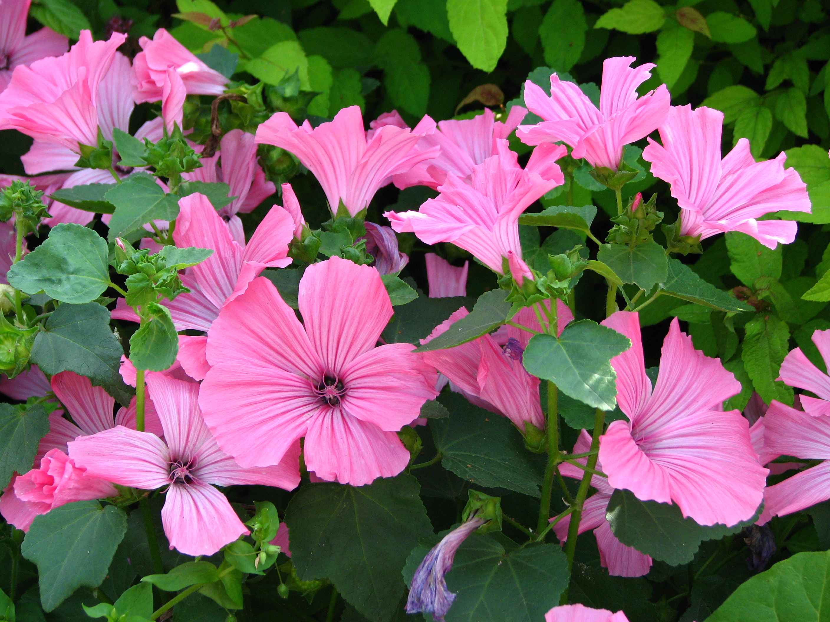 Flower beds in park Kolomenskoye (Moscow).